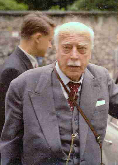 Possibly one of the last photos of Max von Laue taken 1959 at the Nobellaureate's Meeting in Lindau, Germany